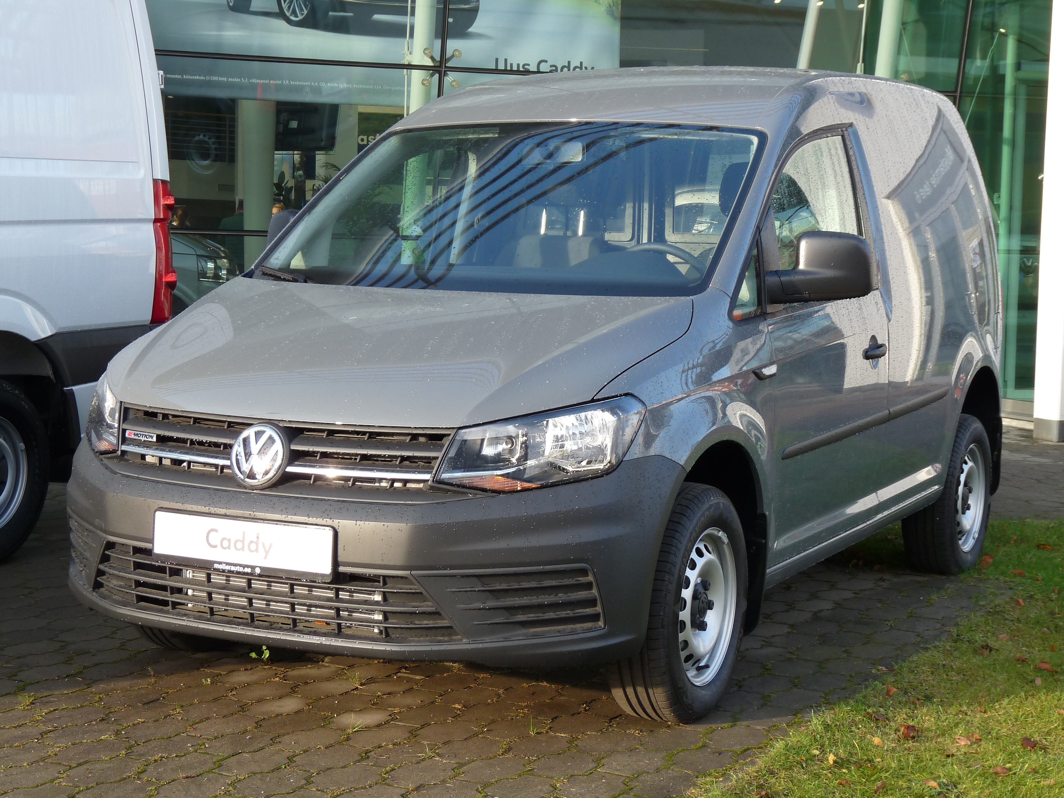 Volkswagen vehicle in Tallinn, Estonia